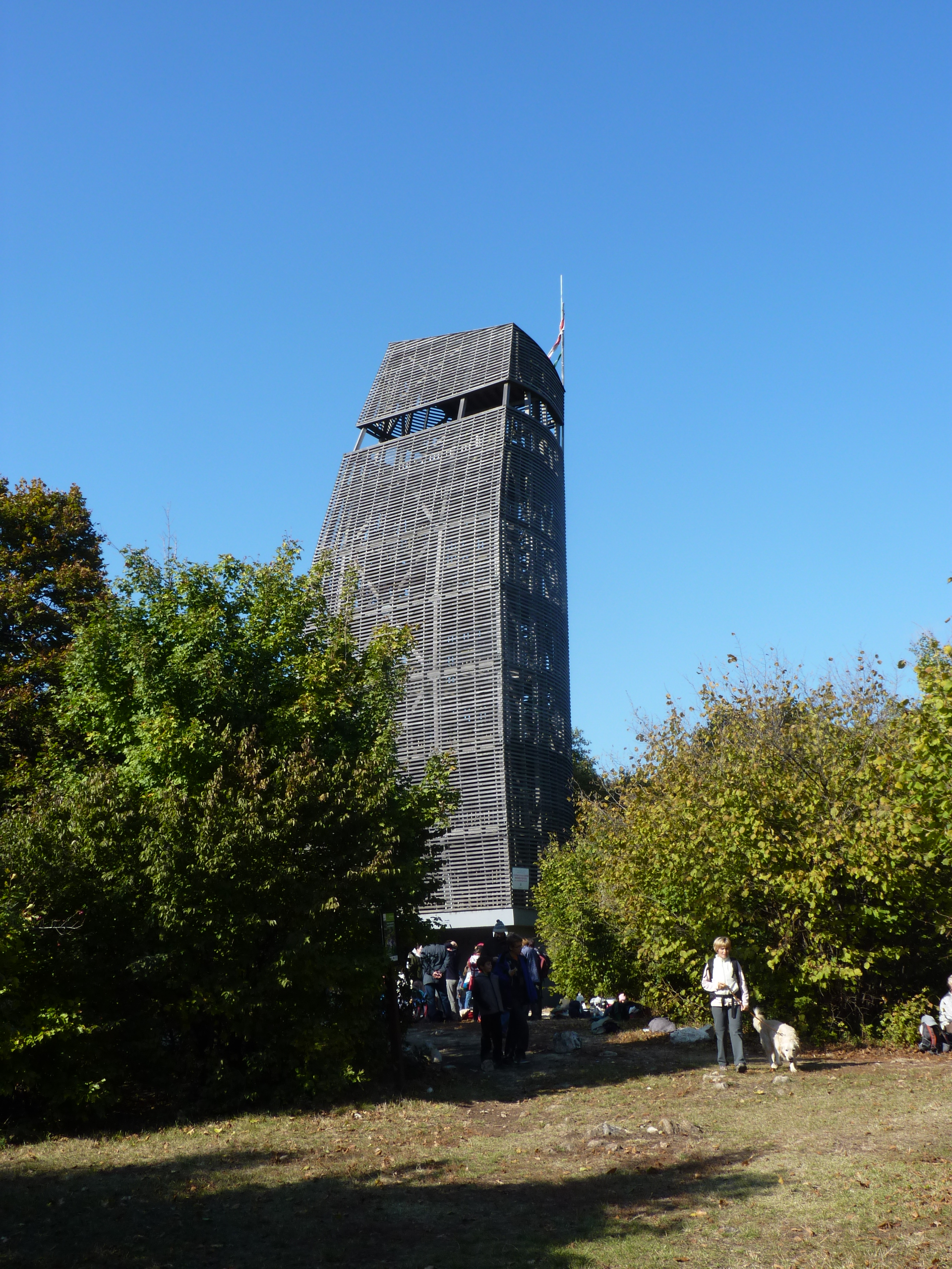 Pál Csergezán view tower, Nagy-Kopasz